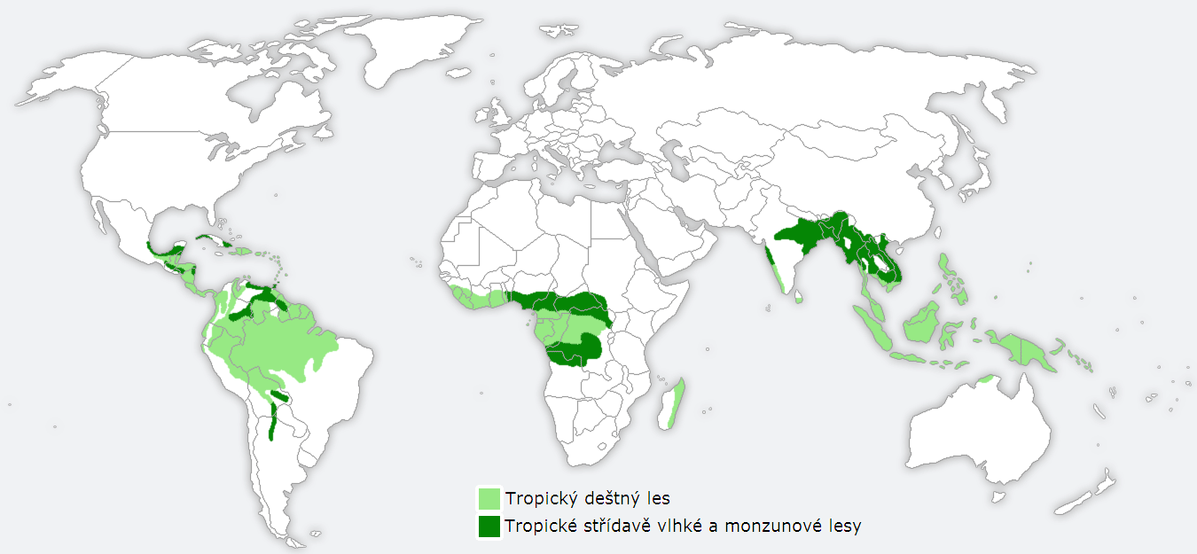 Rainforests of world with Czech description